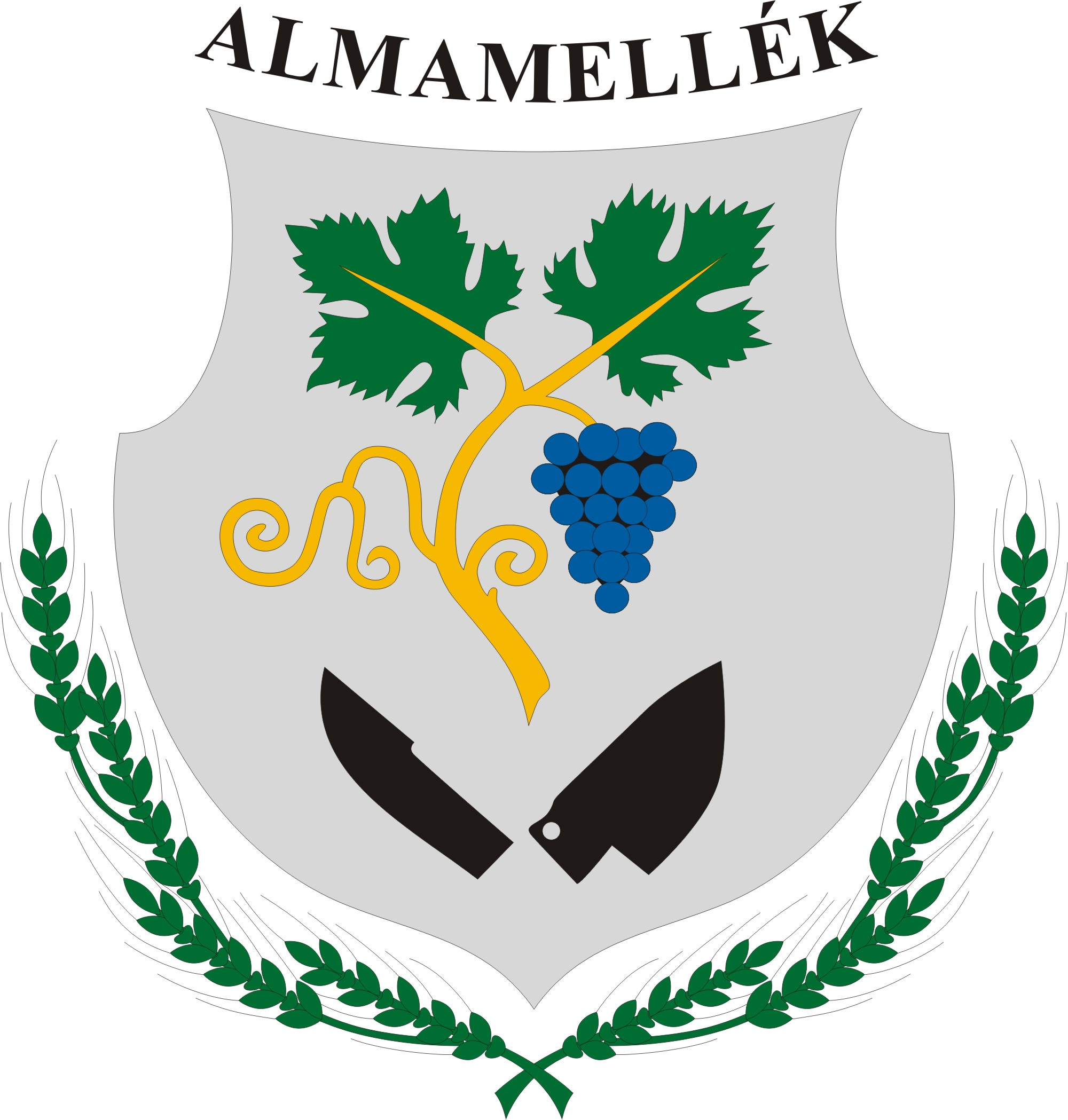 Coat of arms of Almamellék, Hungary